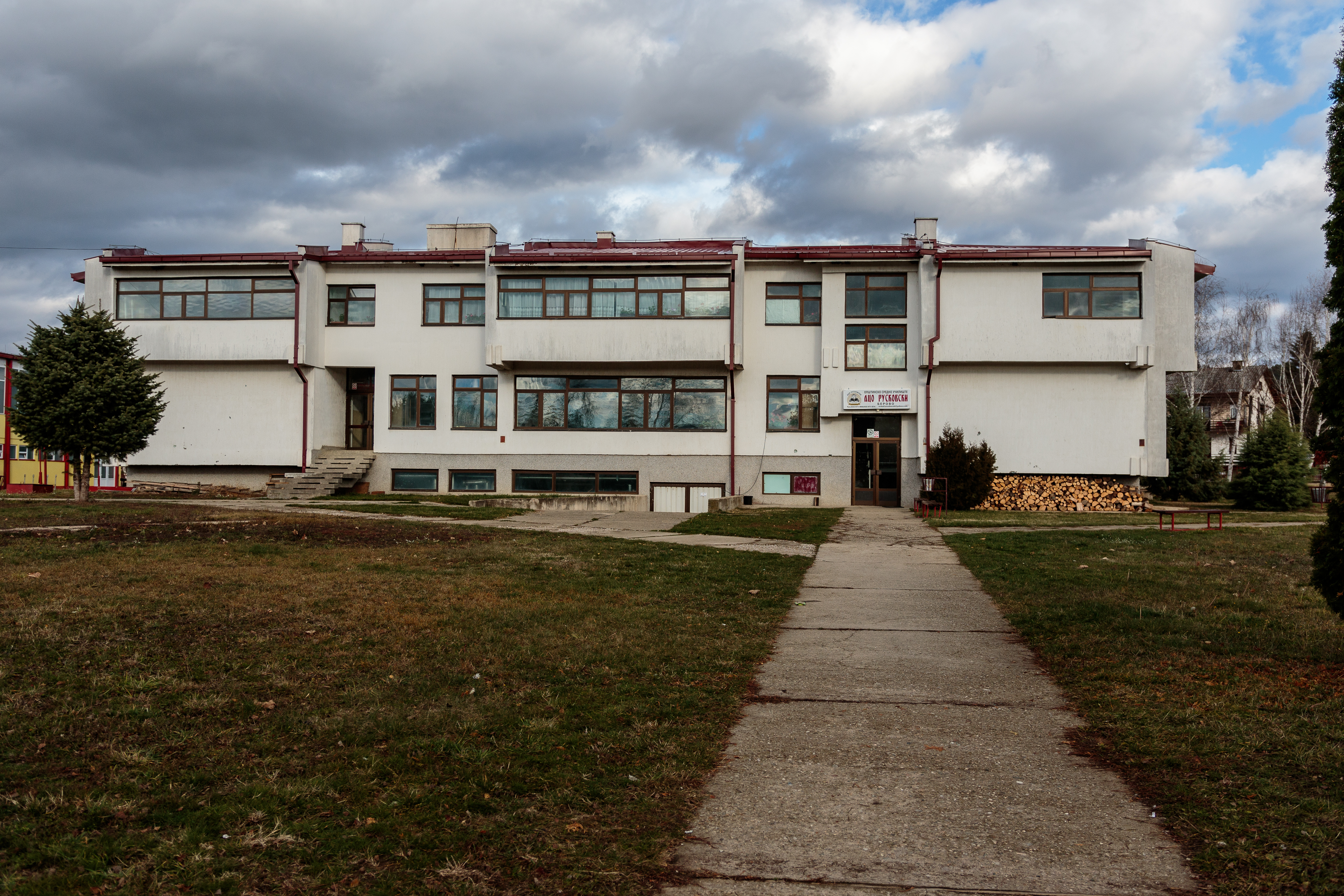 High school in Berovo